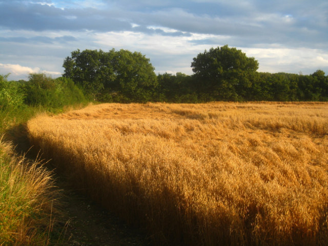 A field of ripe oats, badly lodged (flattened). Lodging in cereals is often a result of the combined effects of inadequate standing power of the crop and adverse weather conditions, such as rain, wind, and/or hail. In this case it was wind and heavy showers.